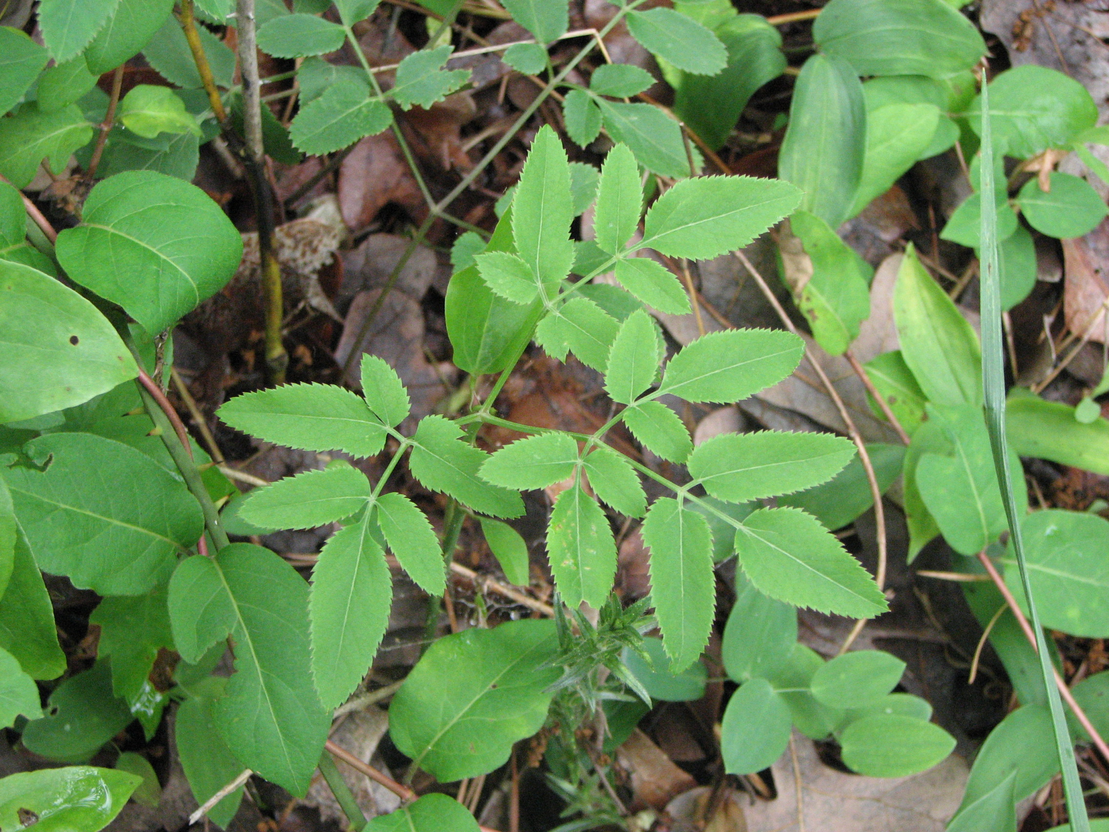 Zizia aurea growing on a serpentine barrens, Nottingham County Park, Nottingham, Pennsylvania.